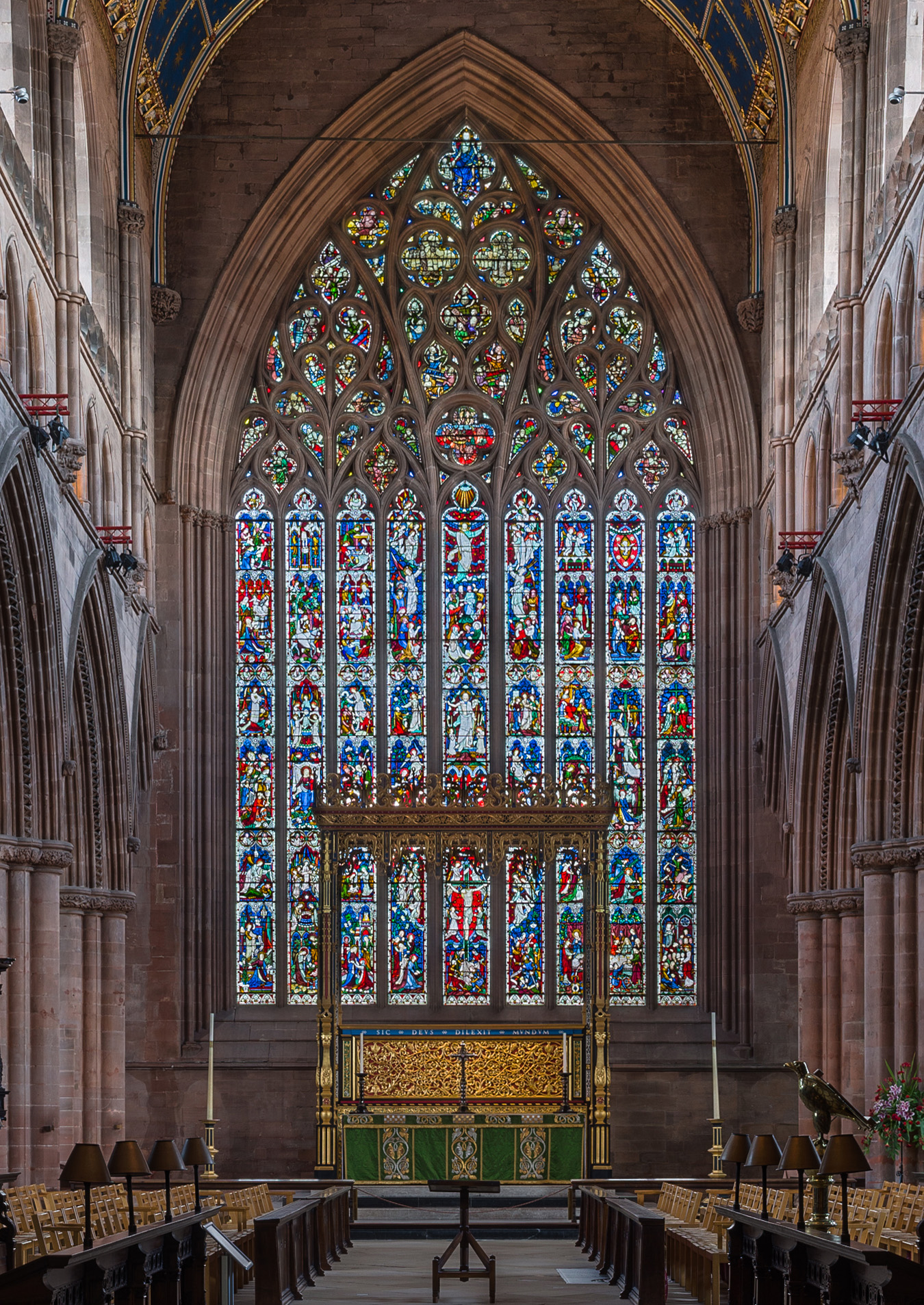 The stained glass and tracery of Carlisle Cathedral in Cumbria, England.